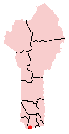 Ouidah, Benin Location Map; created with the GIMP. Made by User:Acntx.